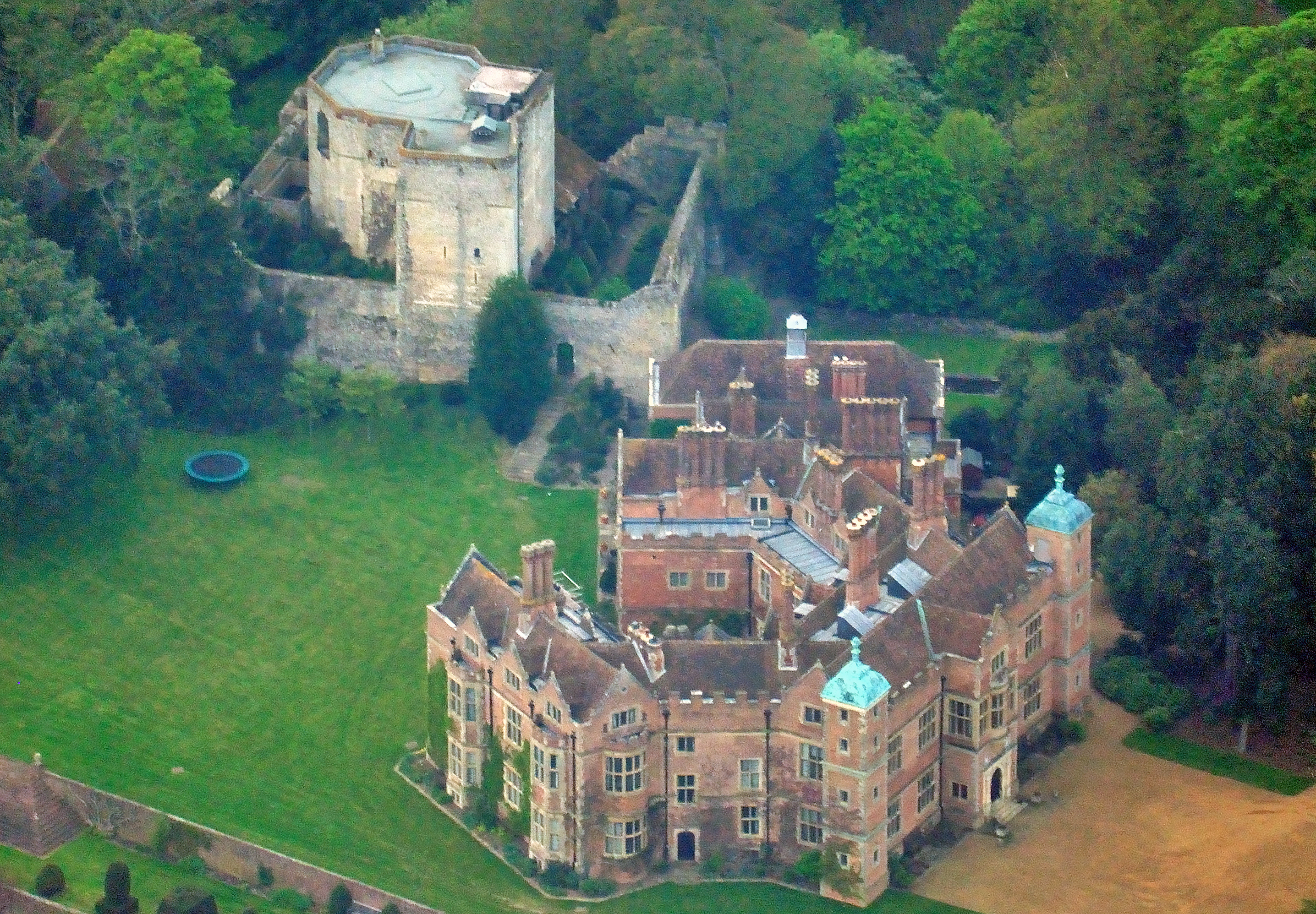 Aerial view of Chilham Castle (manor house and keep) at the village of Chilham (Kent, England). Nikon D60 f=200 f/5.6 at 1/1250s ISO 800. Processed using Nikon ViewNX 1.5.2 and GIMP 2.6.6.